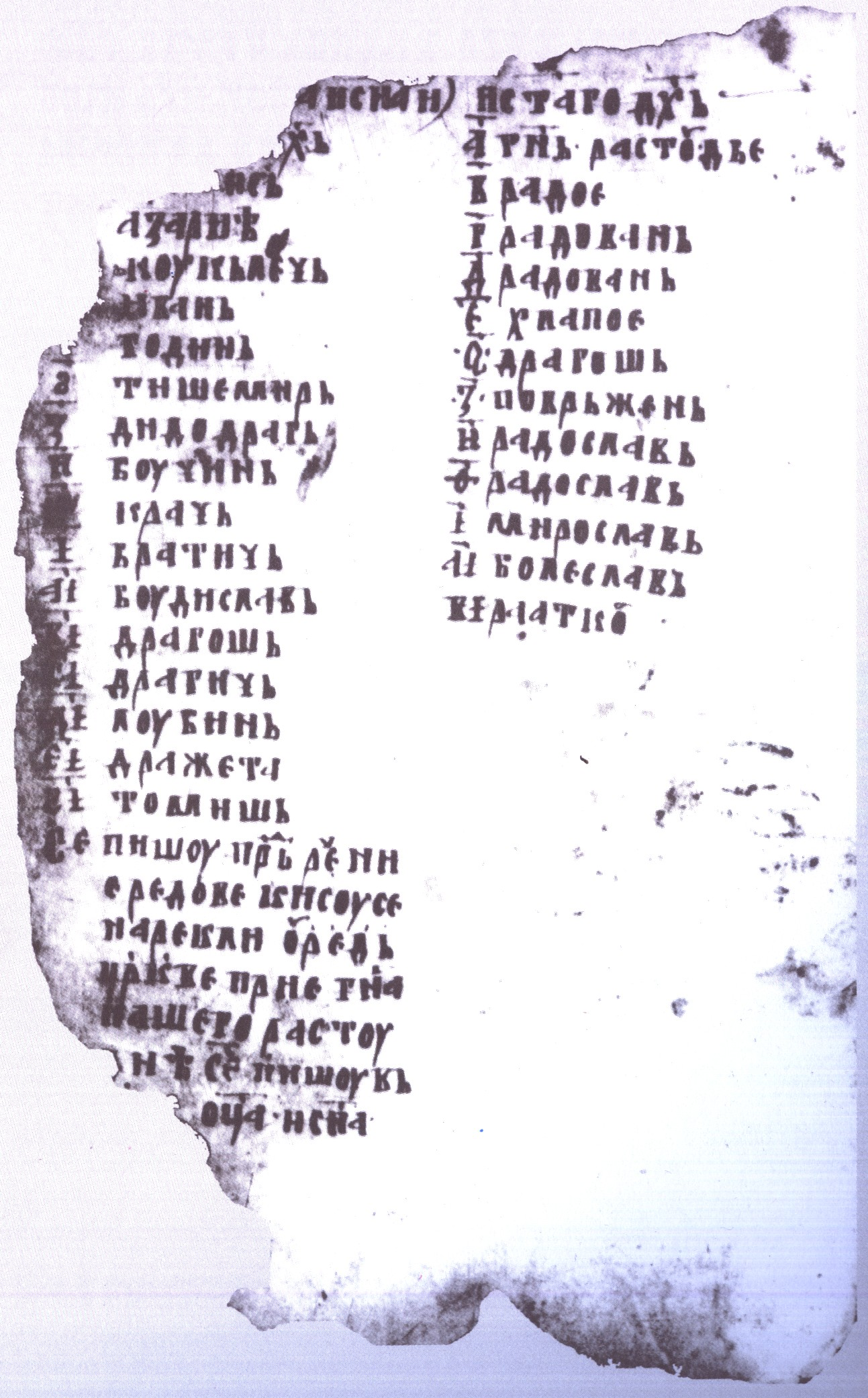 Medieval Bosnian manuscript - The Gospel of Batalo from the 14th century. On this page of the Gospel of Batalo, there is a List of superiors of the Church of Bosnia.